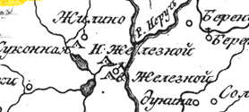 Fragment of Kaluga region from "Russian atlas" published in 1792